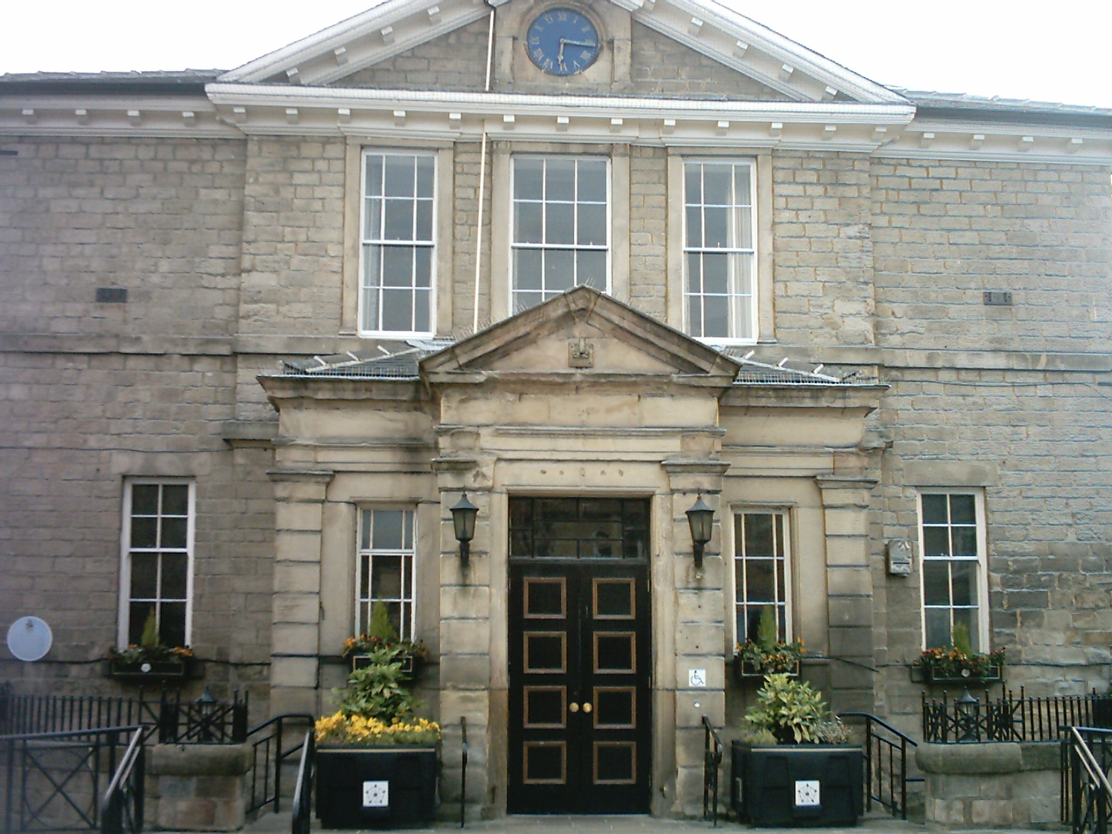 Wetherby Town Hall, Front elevation